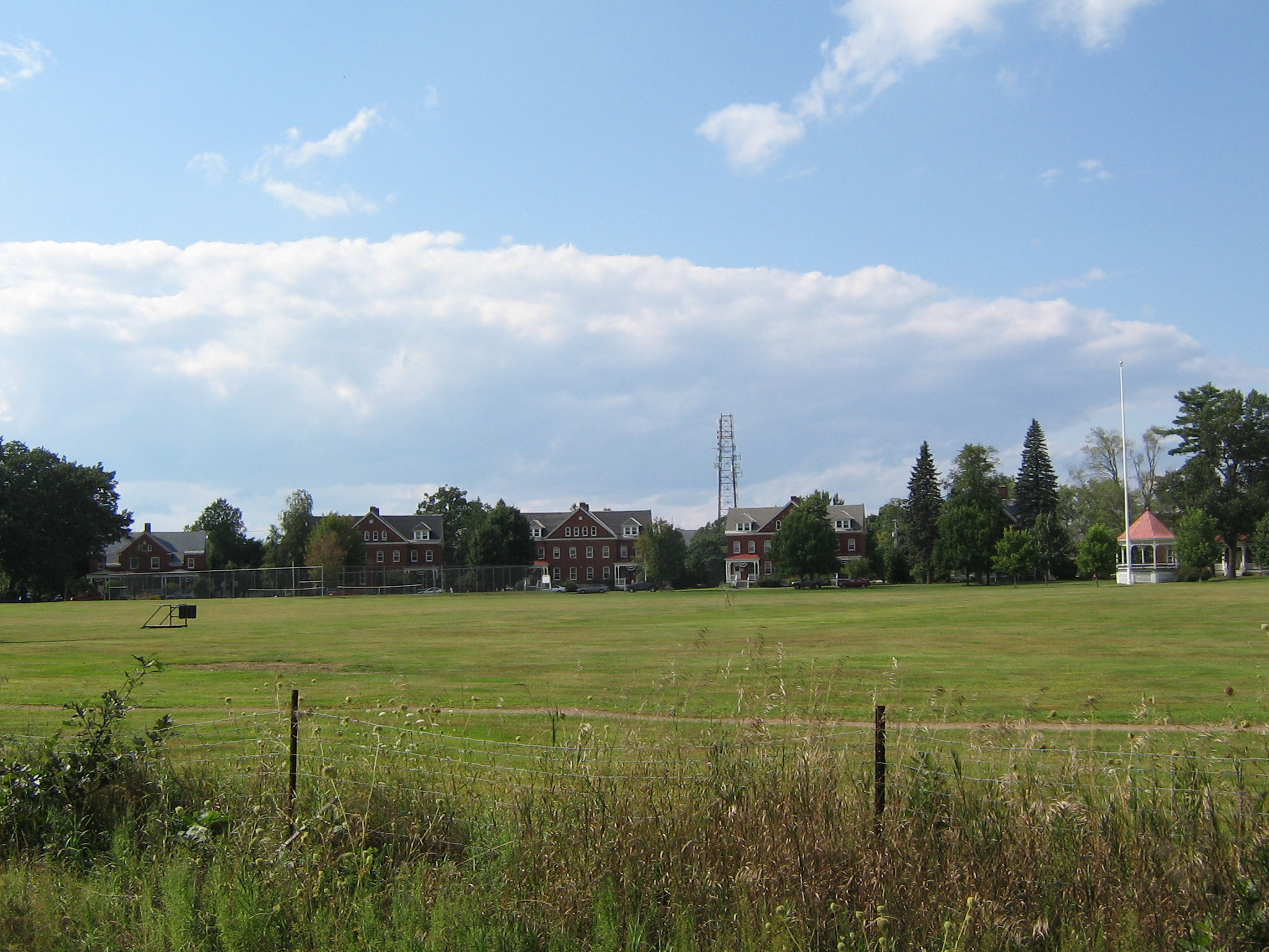 Fort Ethan Allen's historical barracks